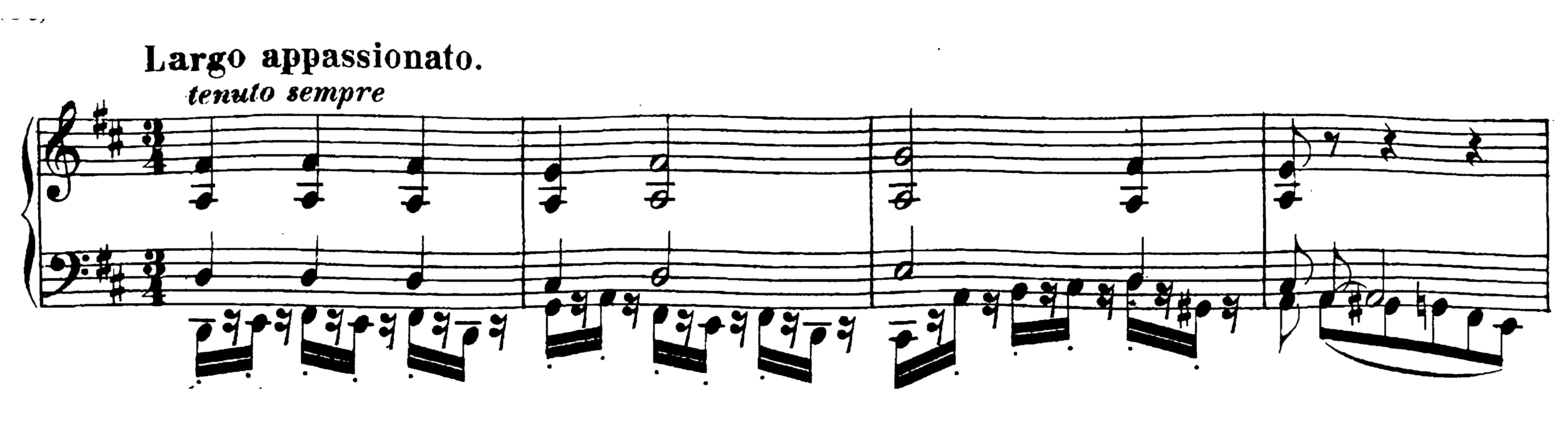 Ludwig van Beethoven, Sonata № 2, beginning of the second movement